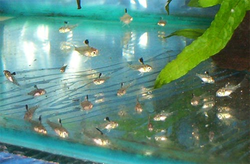 Eight weeks old fry of Mikrogeophagus altispinosus.